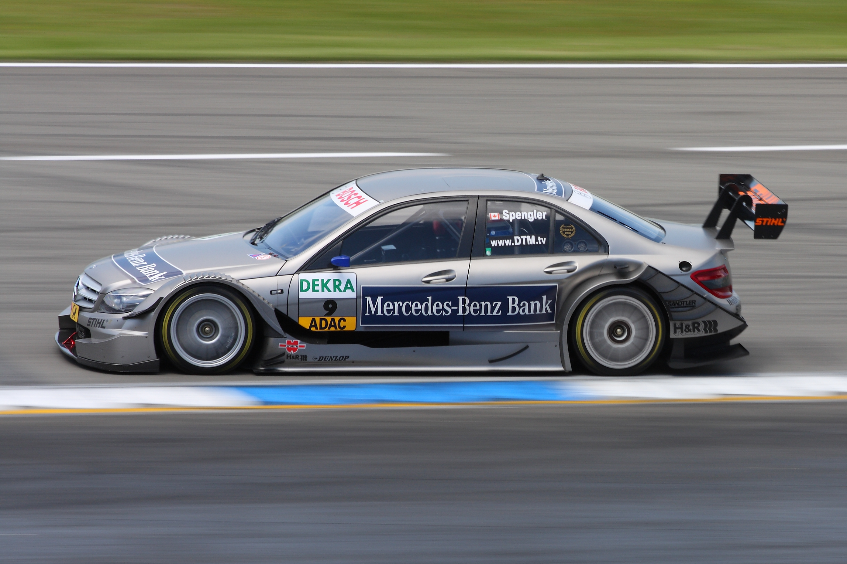 DTM car Mercedes-Benz Season 2009 (C-Class, W204), Bruno Spengler (driver)